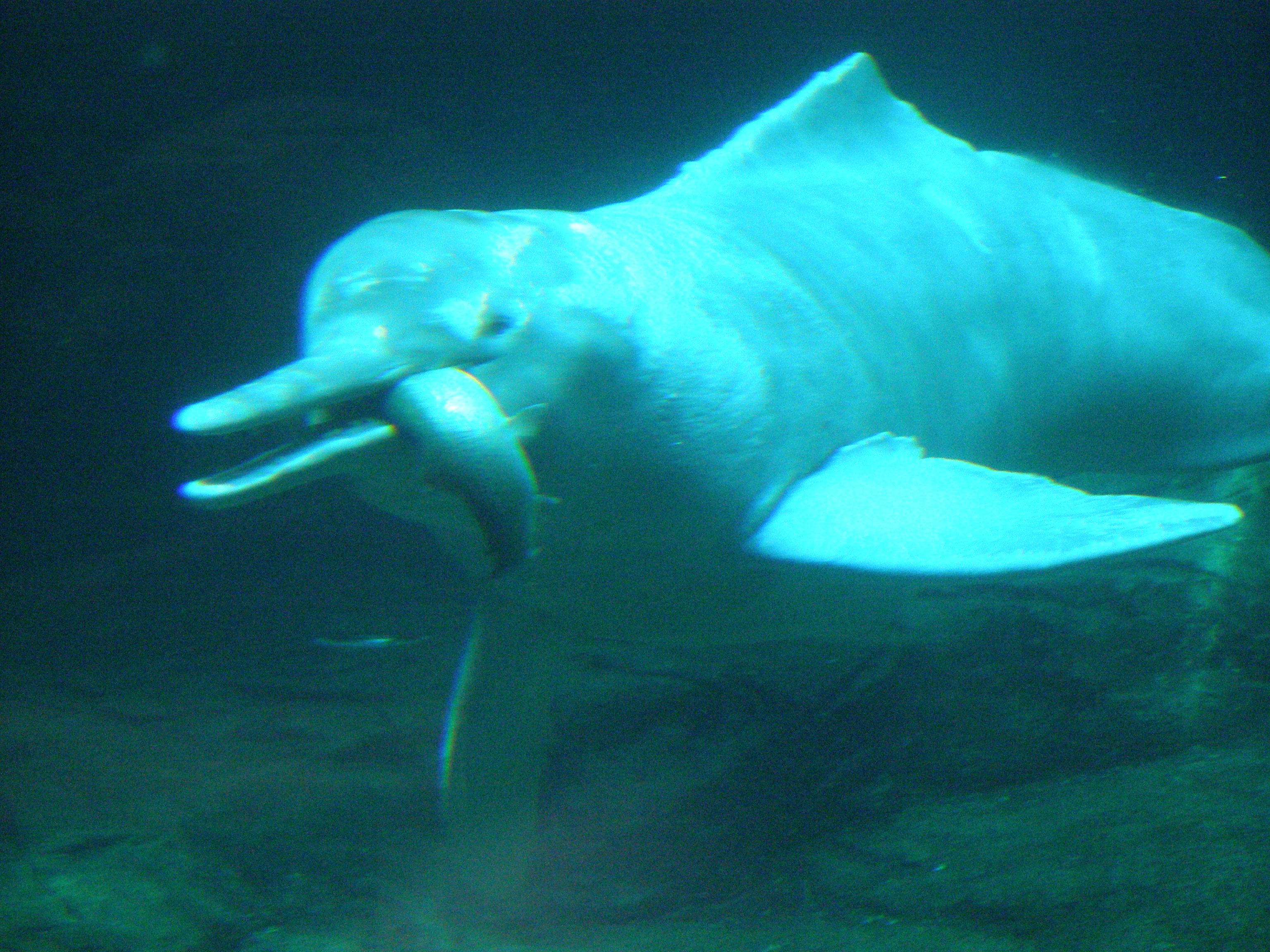 Boto, or Amazon River Dolphin, eating a fish